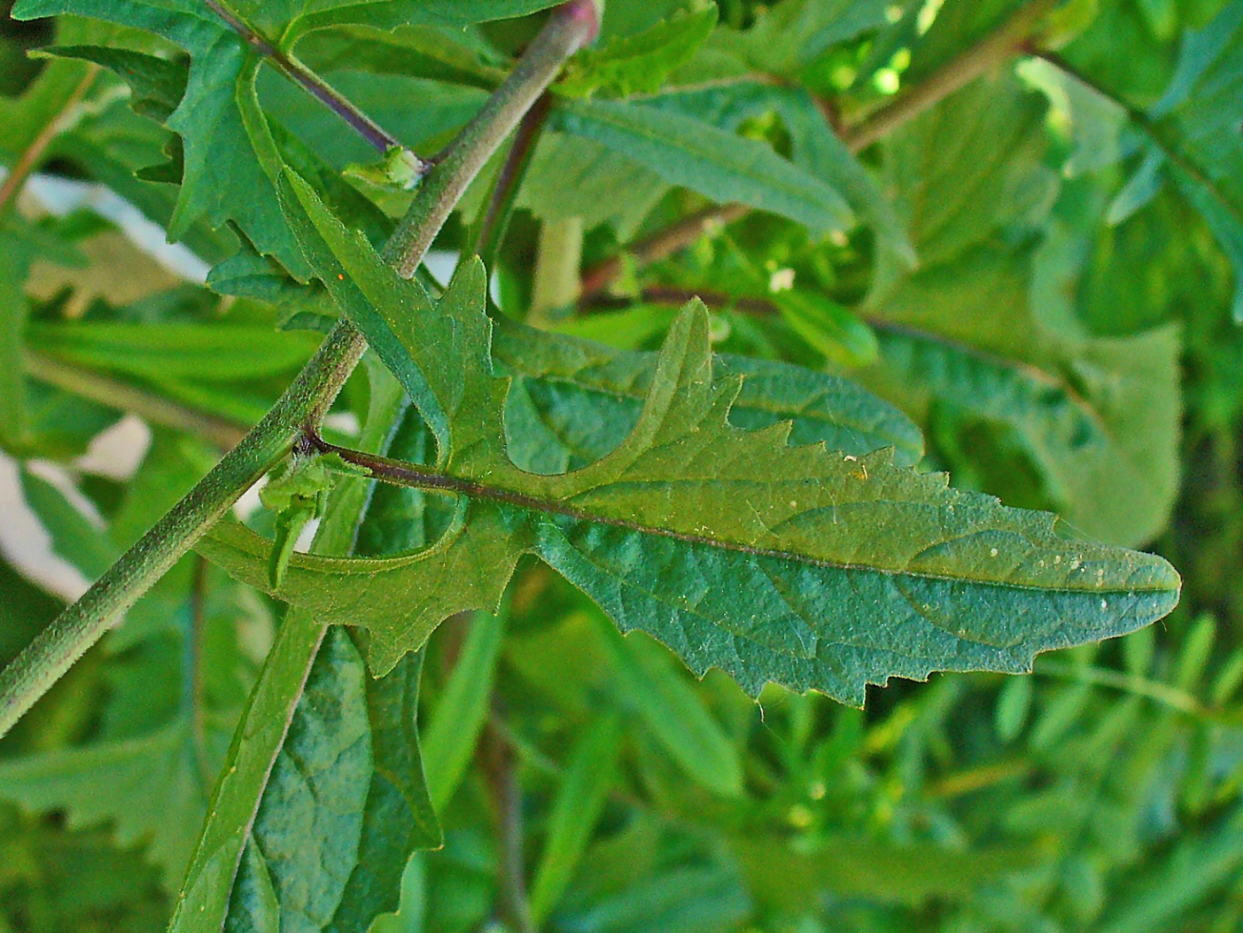 Sisymbrium officinale, Brassicaceae, Hedge Mustard, leaf. Karlsruhe, Germany.